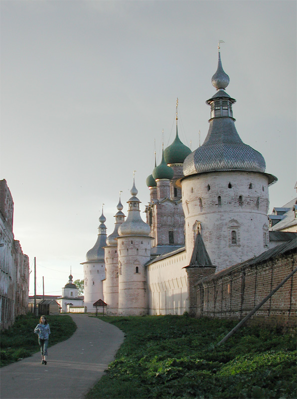 Partial view of the Kremlin of Rostov, Yaroslavl Oblast.